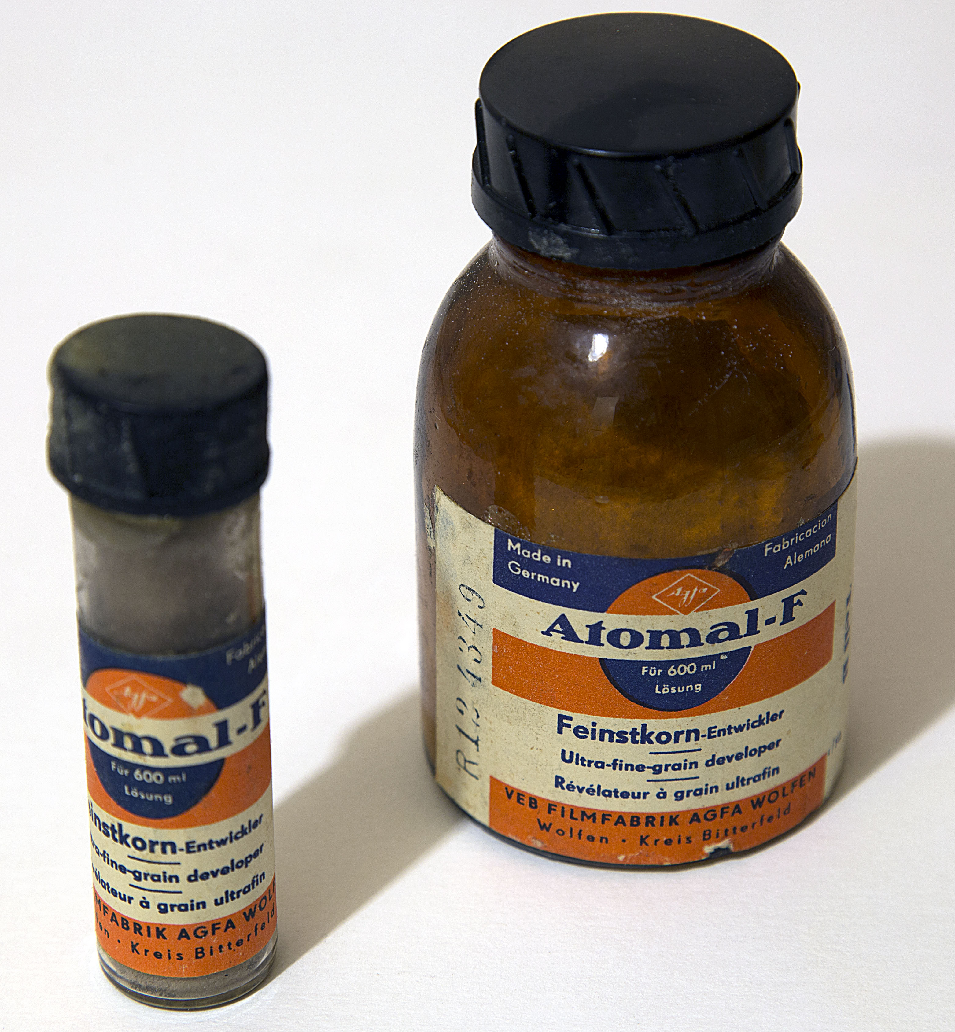 Agfa Atomal-F photographic developer